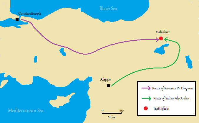 Map of the campaign of Malazkirt/Manzikert between Seljuks and Byzantines in 1071. Based on [1]